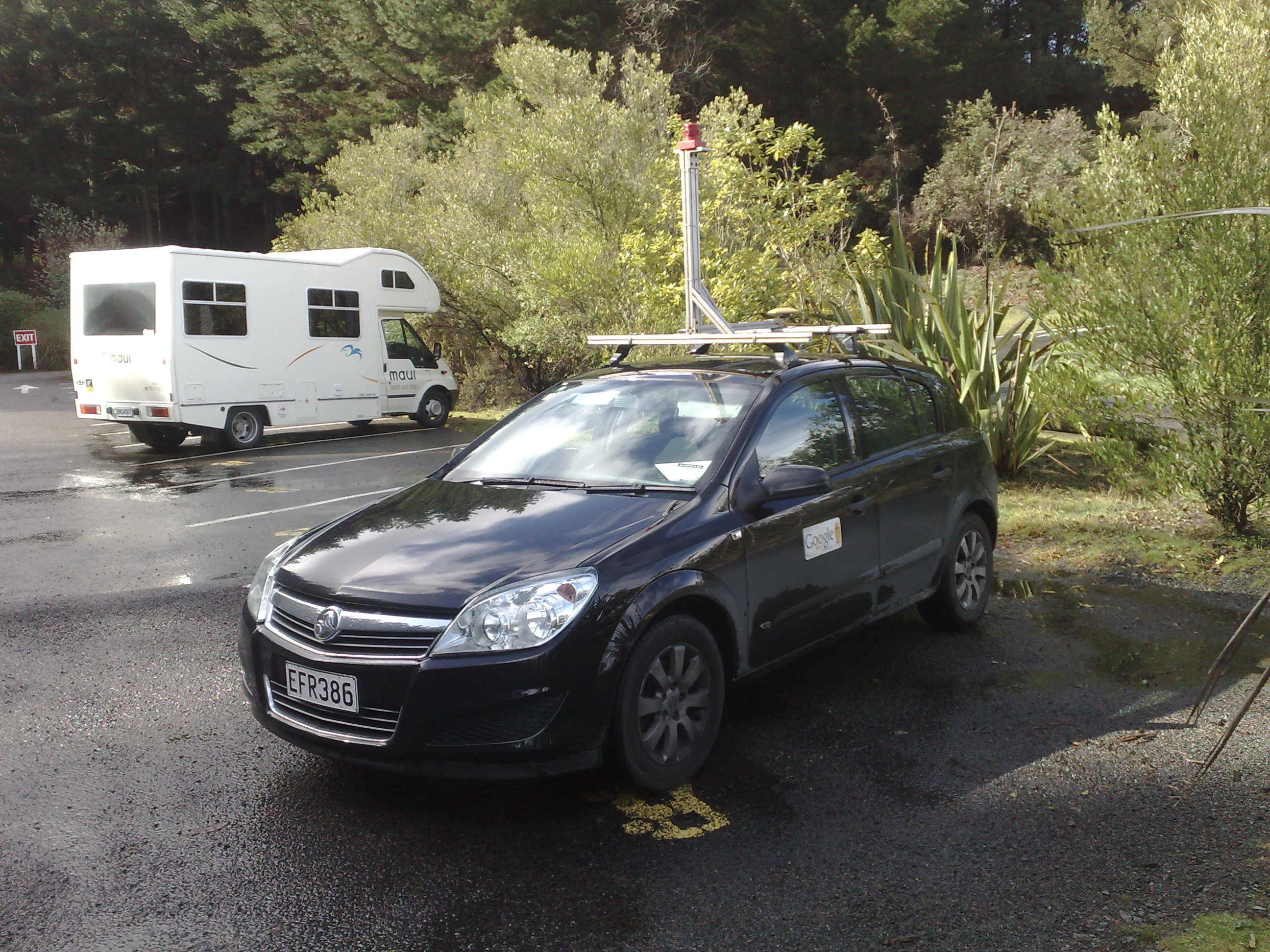 2007–2008 Holden Astra (AH) CD 5-door hatchback, Google Street View car that takes street pictures for use in Google Street View. The car has a six directional camera on top (the mast) and A GPS unit. Photographed near Craters of the Moon (Karapiti), Taupo, New Zealand.